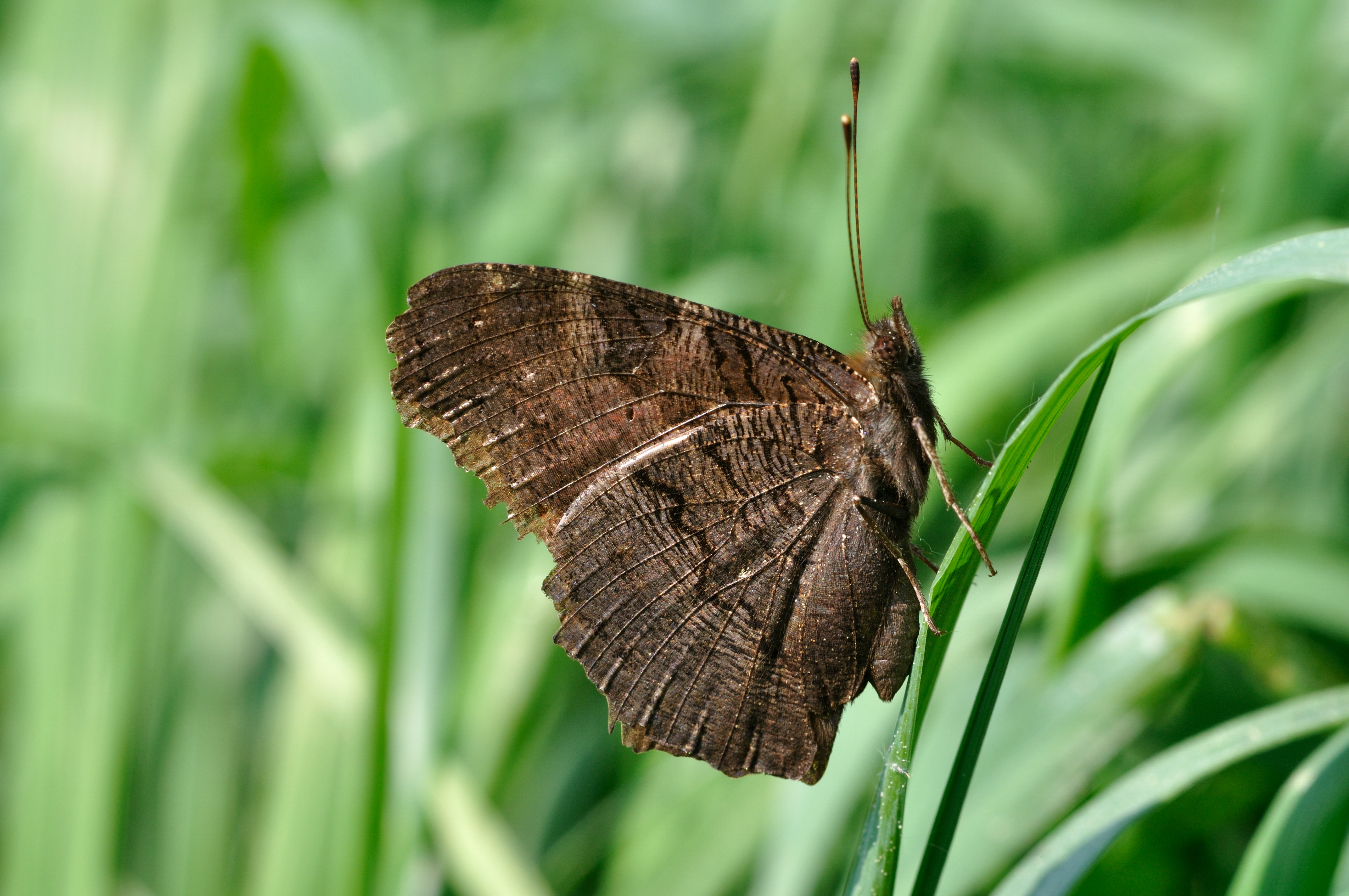 Side view of a Peacock butterfly (Inachis io) in Ahlen, Germany.